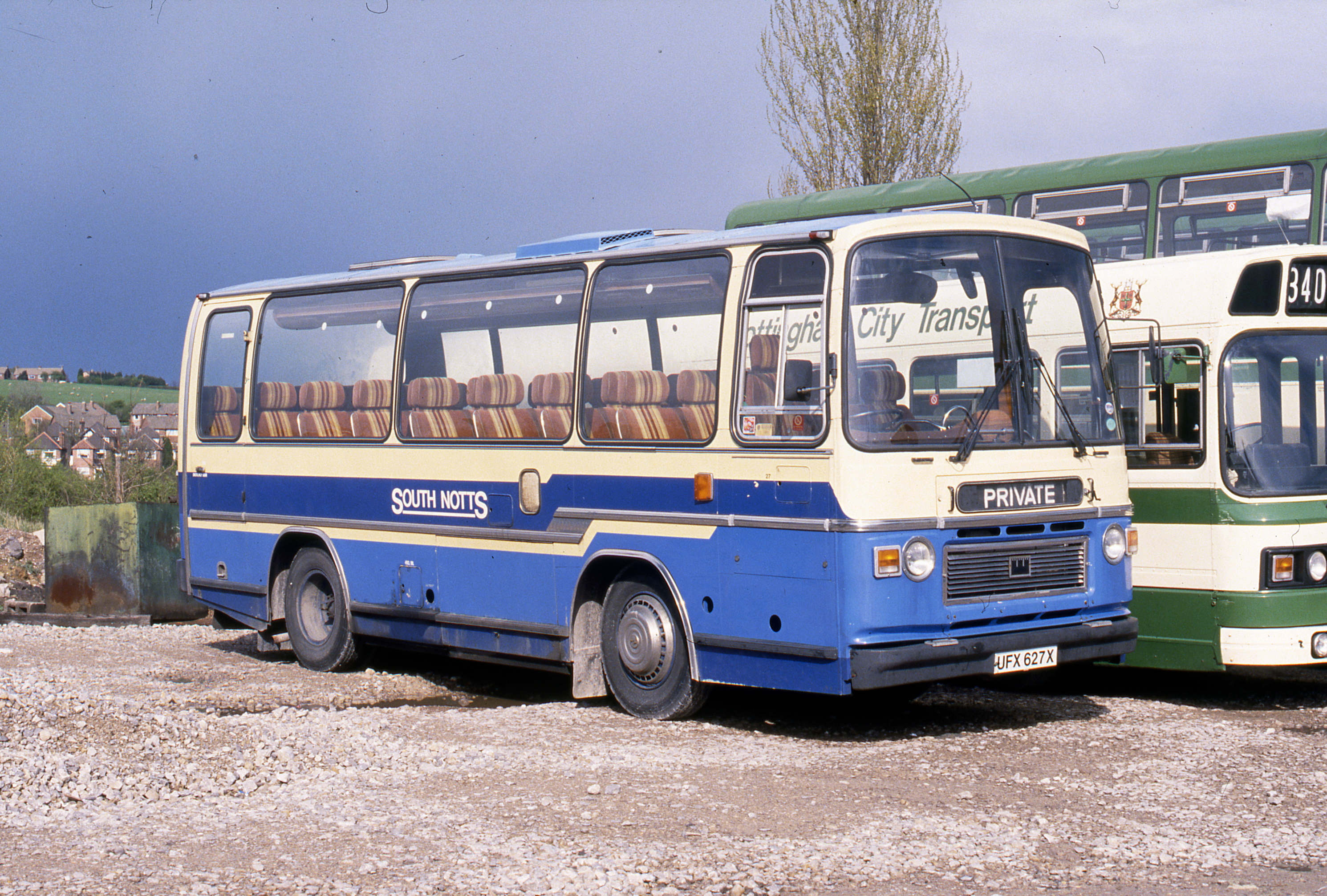 South Notts Bristol LHS / Plaxton Supreme V (?) midicoach UFX 627X at the yard of Erewash Valley (part of Nottingham City Transport), near Ilkeston.